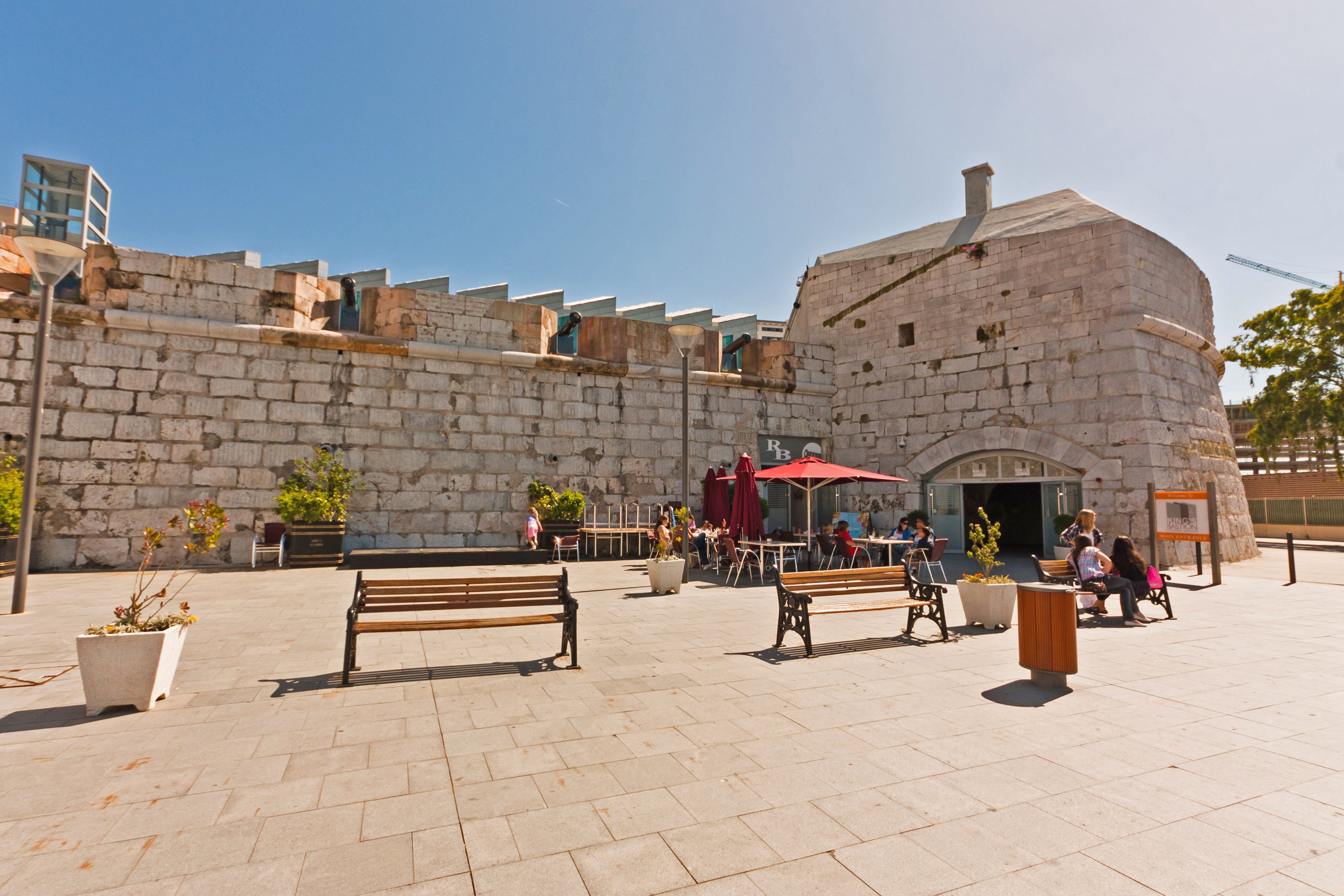 Northern facade and main entrance to the King's Bastion leisure centre in Gibraltar